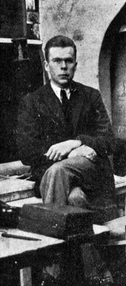 César Domela. From De Stijl, vol. 7, nr. 79/84 (1927): p. 91.